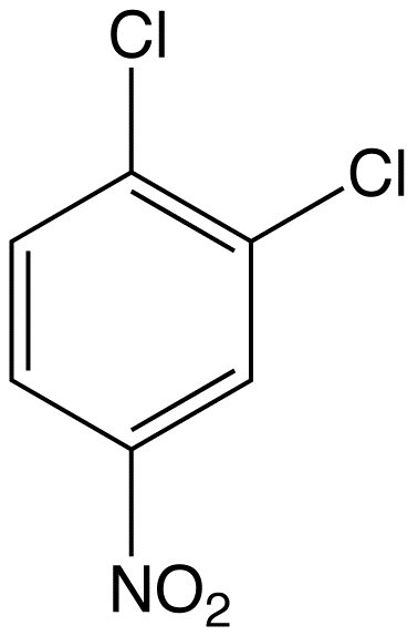 chemical structure of 1,2-dichloro-4-nitrobenzene